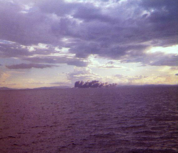 View from the U.S. Navy destroyer USS Hanson (DD-832), showing bomb explosions of a USAF B-52 near Quang Tri, Vietnam.